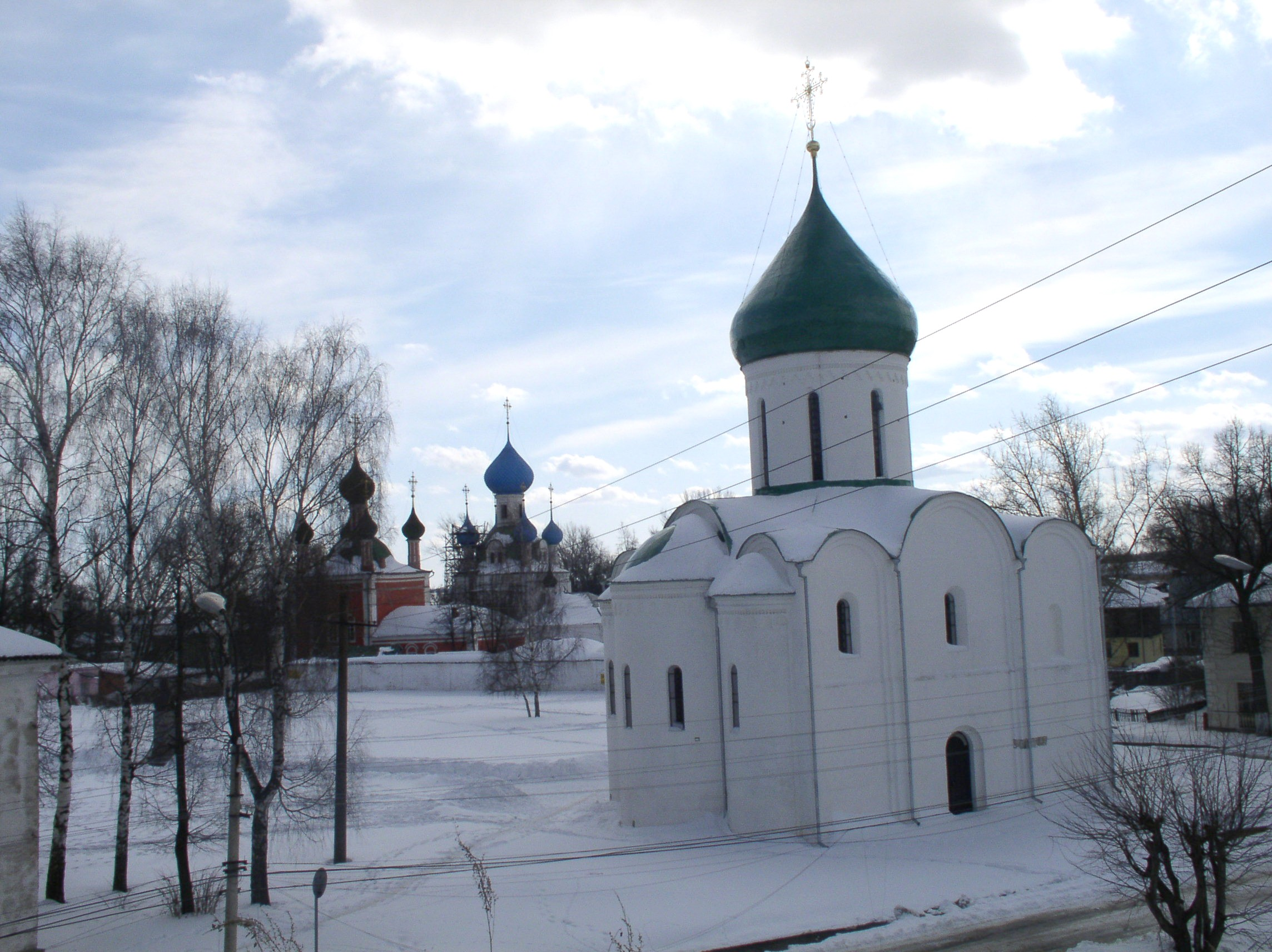 View of the Pereslavl-Zalessky Kremlin (Russia, Yaroslavl oblast) in winter. Spaso-Preobrazhensky Cathedral (XII c.) and former Sretensky Monastery (two churches, XVIII c.)